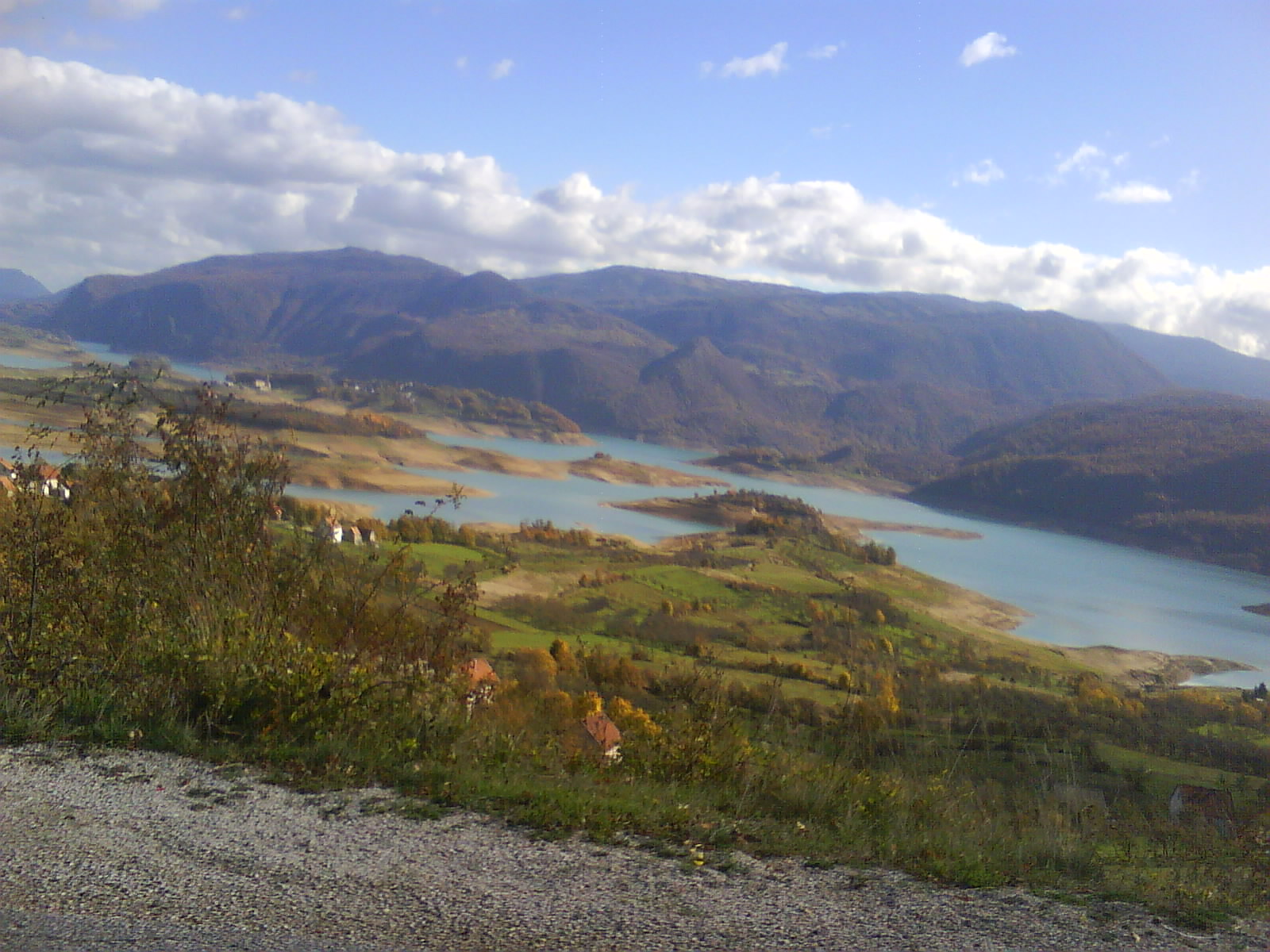 Rama lake in Northern Herzegovina